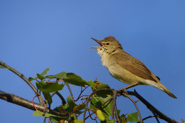 Blyth's reed warbler, photographed at Årstafältet, Sörmland